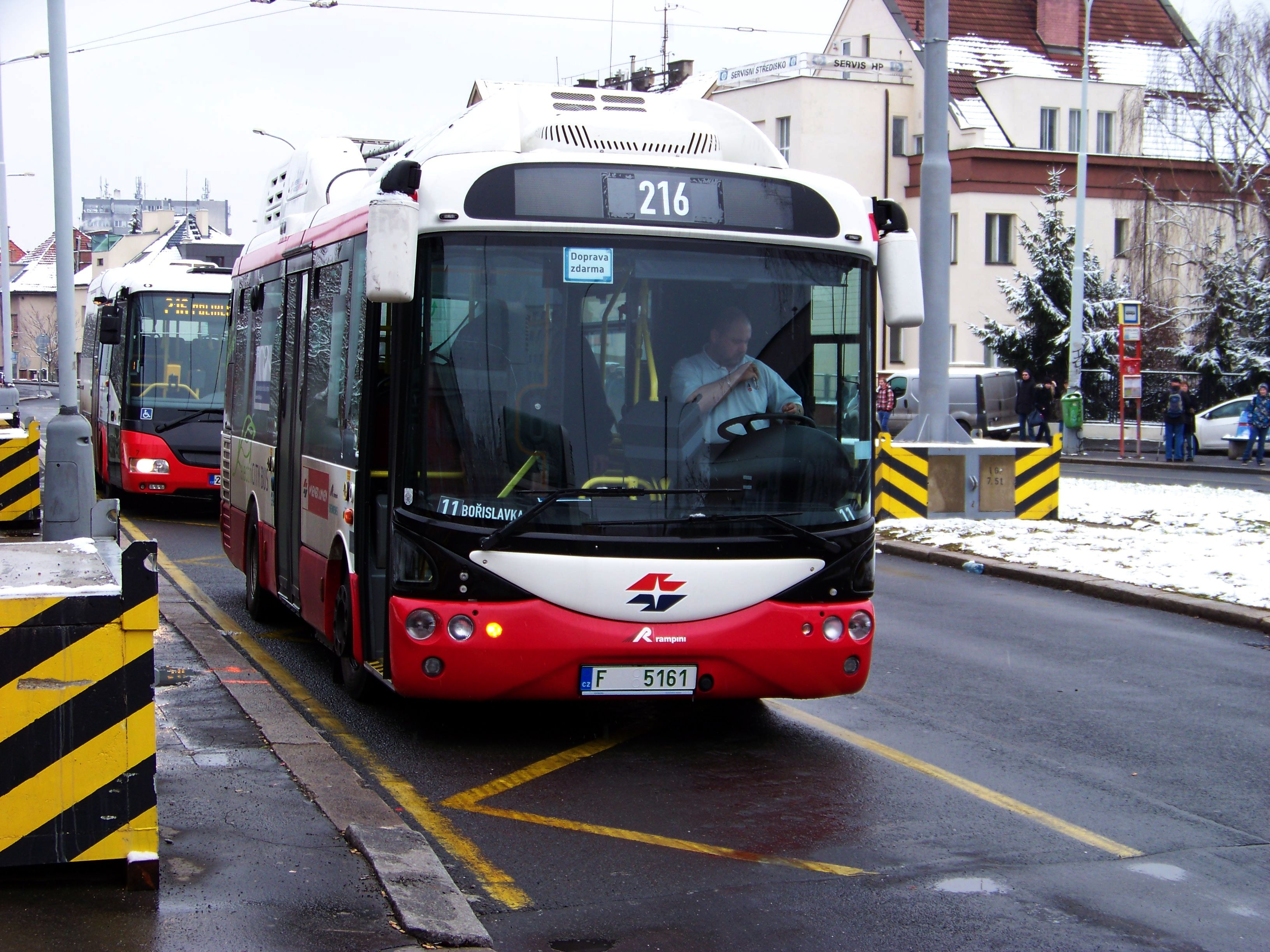 Prague-Dejvice, Czech Republic. Siemens-Rampini electric bus of Wiener Linien at the line 216 of DPP at the charging station, náměstí Bořislavka.